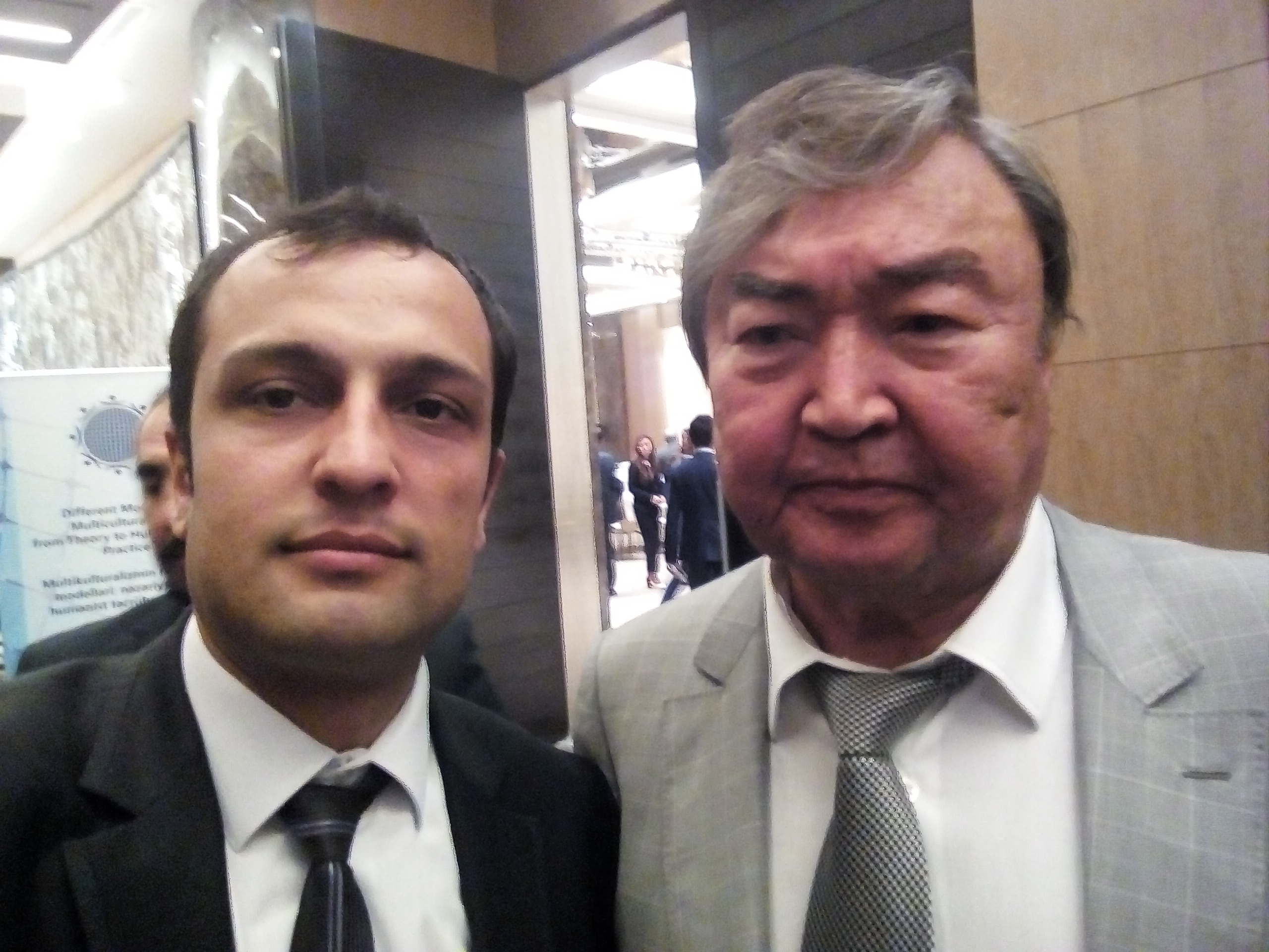 User:Cekli829 and Olzhas Suleimenov